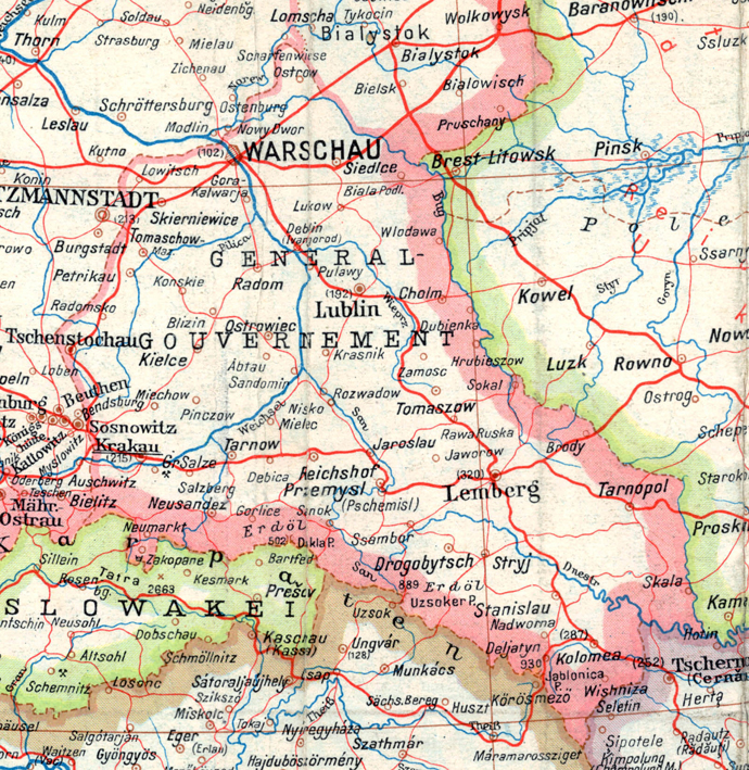 A part of a map of Europe printed by the O.K.H. in 1943.